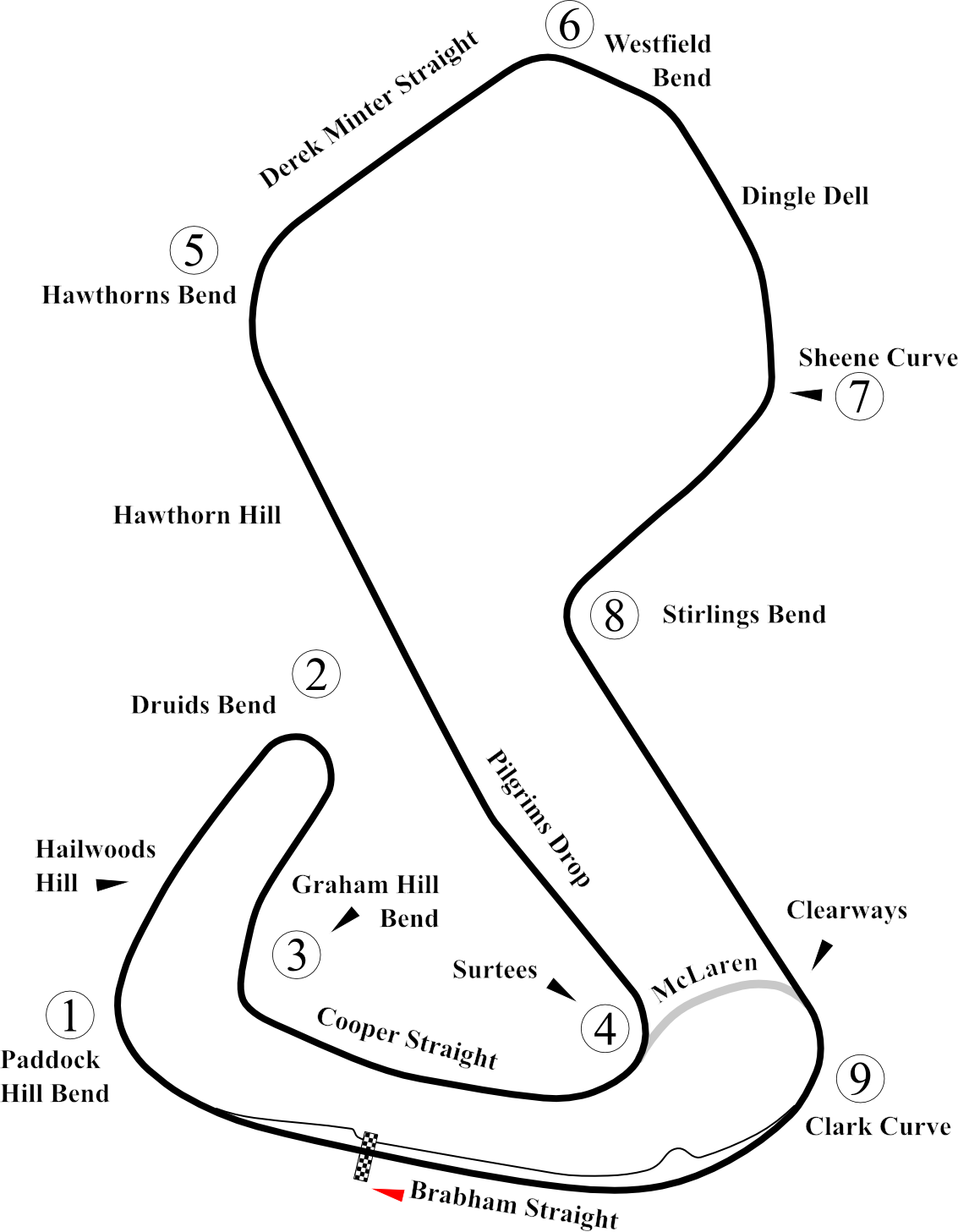 Track map of Brands Hatch. This PNG version is intended for use with browsers like IE7 that don't support SVG.